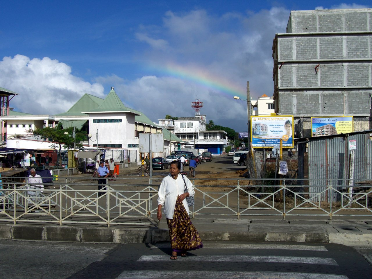 Mahébourg, Mauritius (Southeastern coast), seen from the bus station